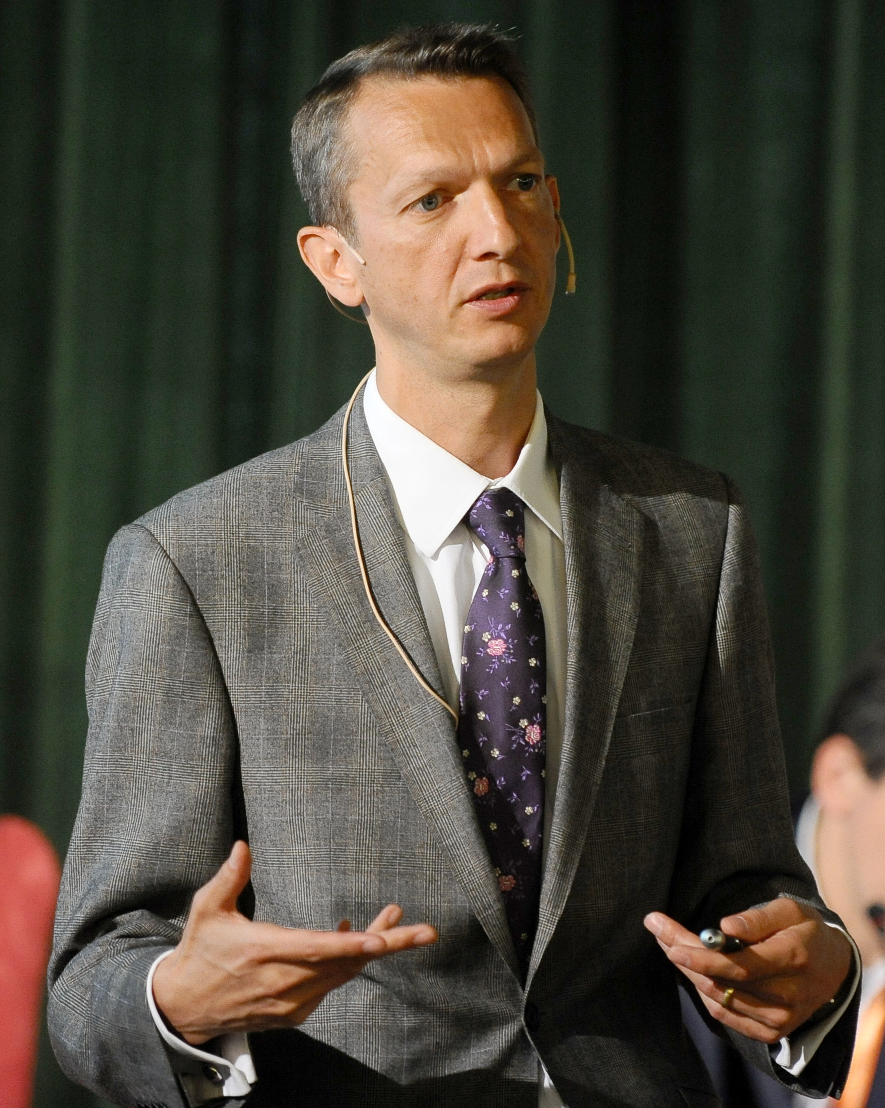 Andy Haldane at the Festival of Economics in Trento.